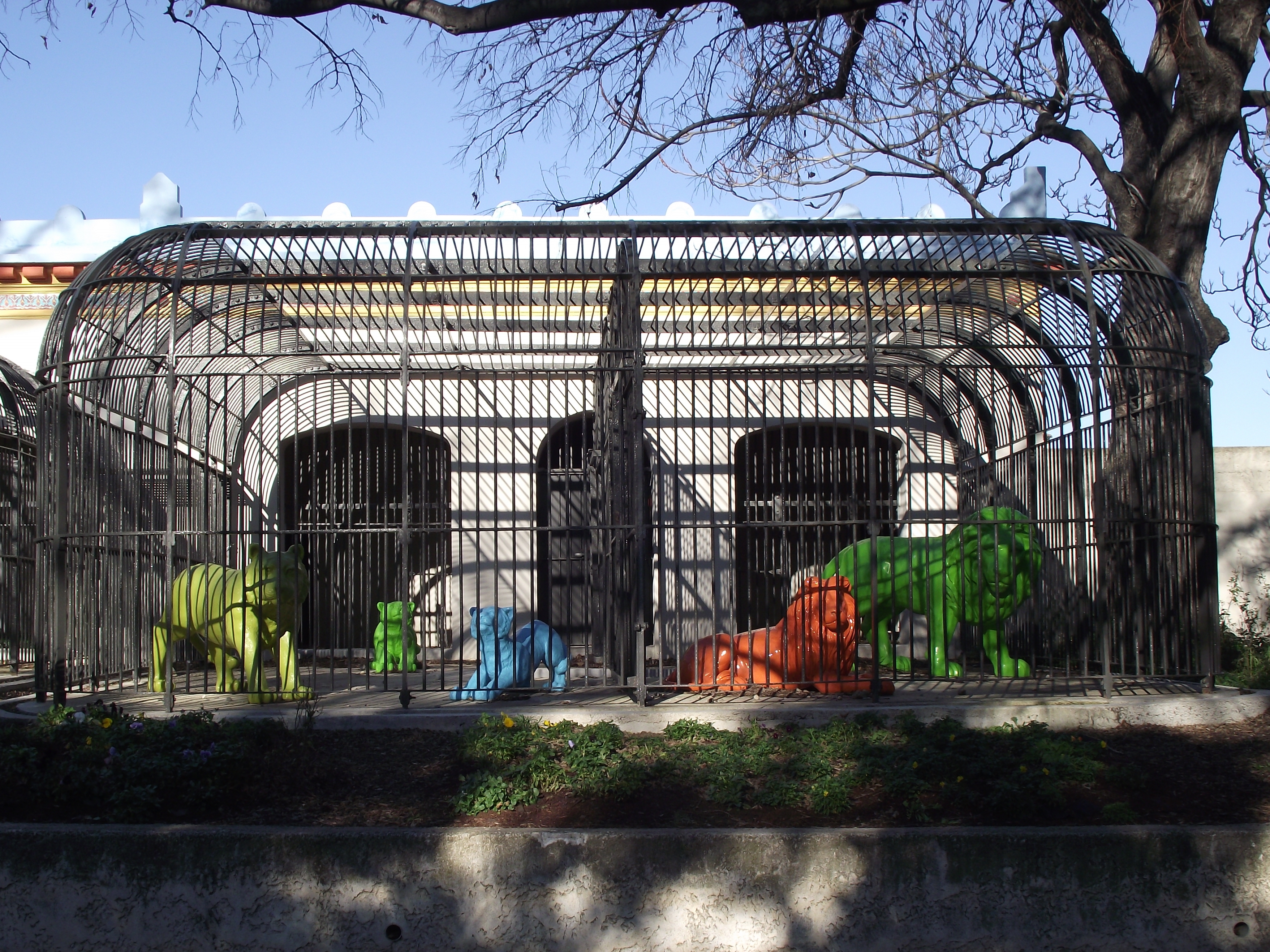 Cinq-Avenues | Rue Espérandieu The Longchamp Palace is composed of three entities: a central water tower with a semicircular colonnade on both sides built to commemorate the arrival in Marseilles of water from River Durance, the Museum of Fine Arts and the Natural History Museum. Arch. Henri Espérandieu 1869. At the rear of the palace, located in the Longchamp park, are located the botanical garden and zoo, although the latter hasn't hosted animals anymore since the late 1980s.